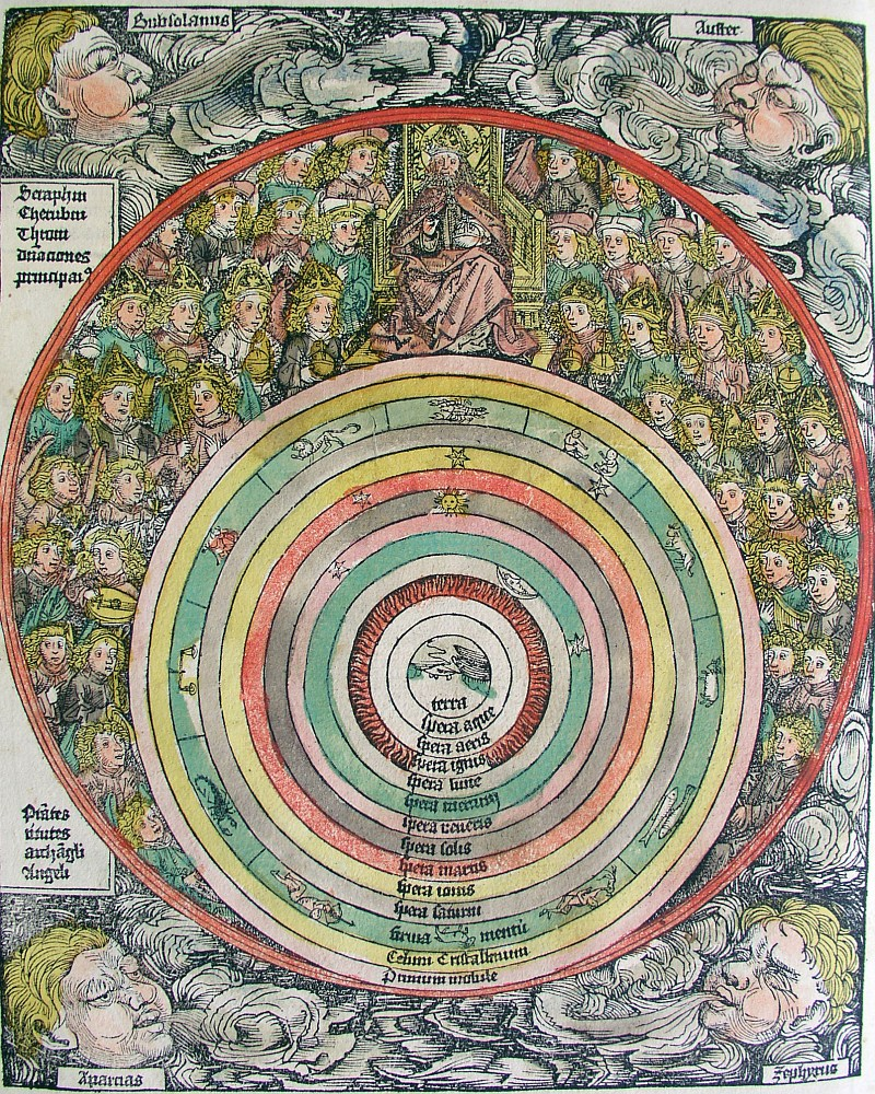 Woodcut from the Nuremberg Chronicle